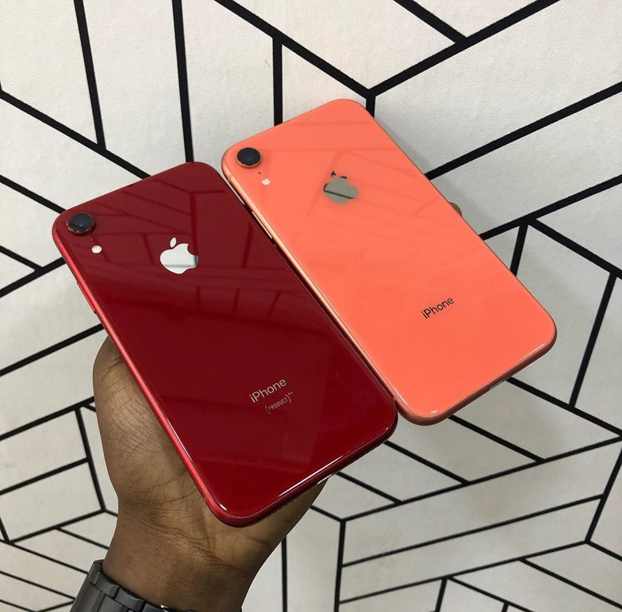 iPhone XR (stylized and marketed as iPhone Xʀ; Roman numeral "X" pronounced "ten")[14][15] is a smartphone designed and manufactured by Apple Inc. It is the twelfth generation of the iPhone.